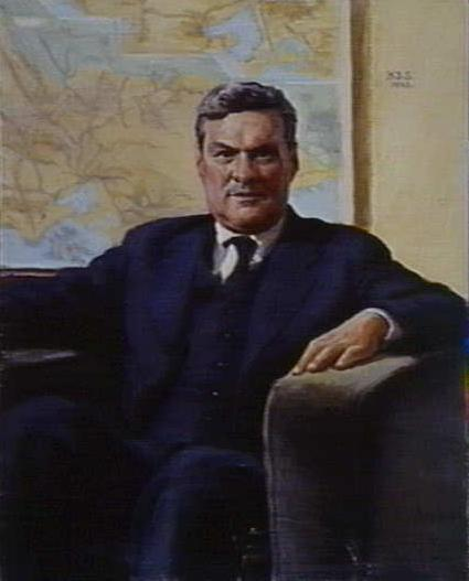 Painting of Maurice Blackburn, Australian politician and lawyer.